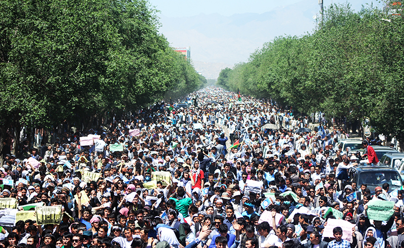 Hazara people's Demonstration in Kabul